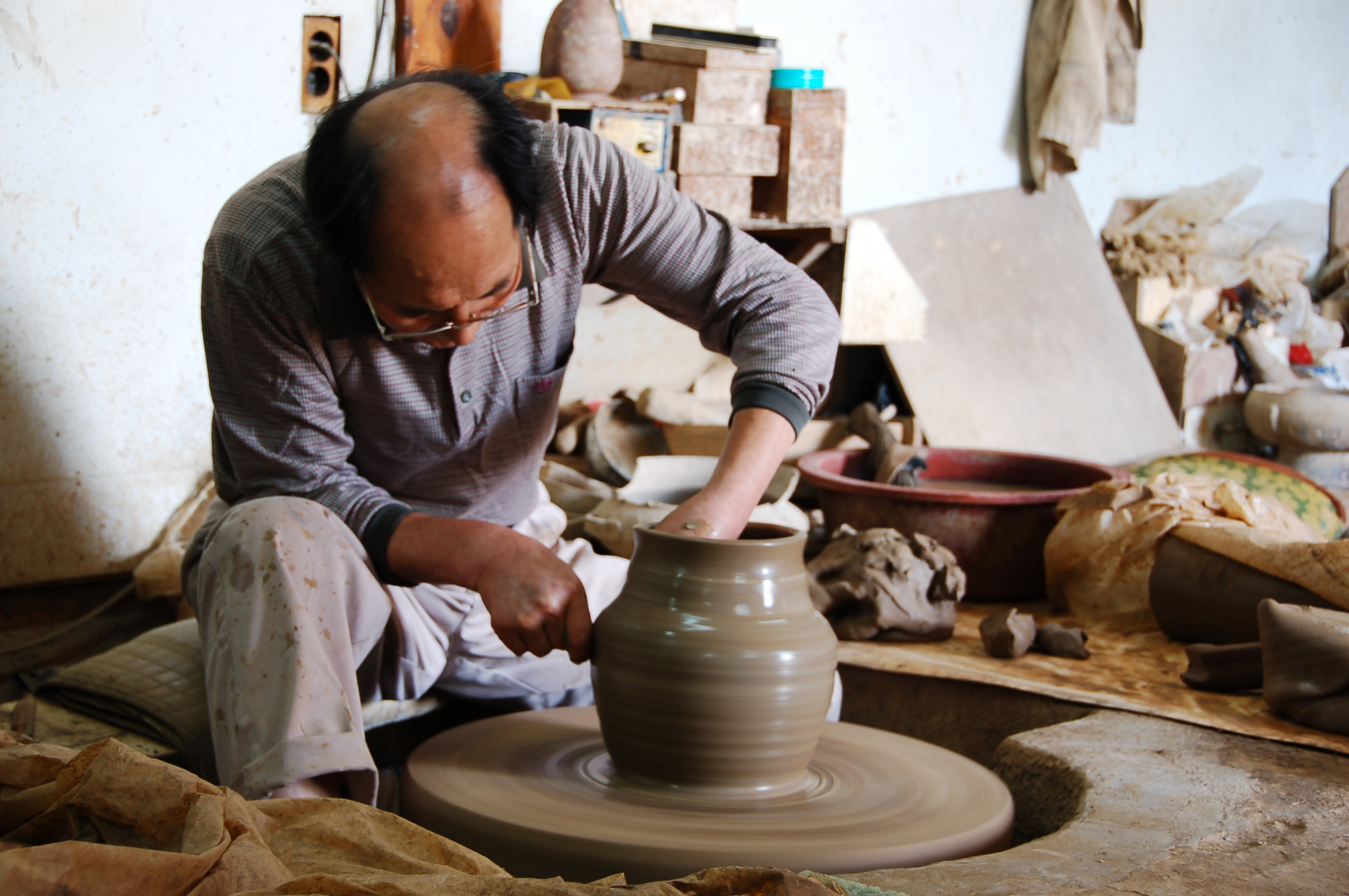 Artisan, Yu Hyo-ung crafting a Silla-style pot in Gyeongju, South Korea